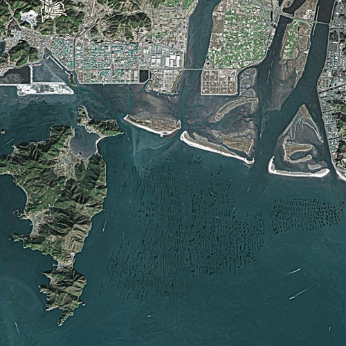 Busan by SPOT Satellite